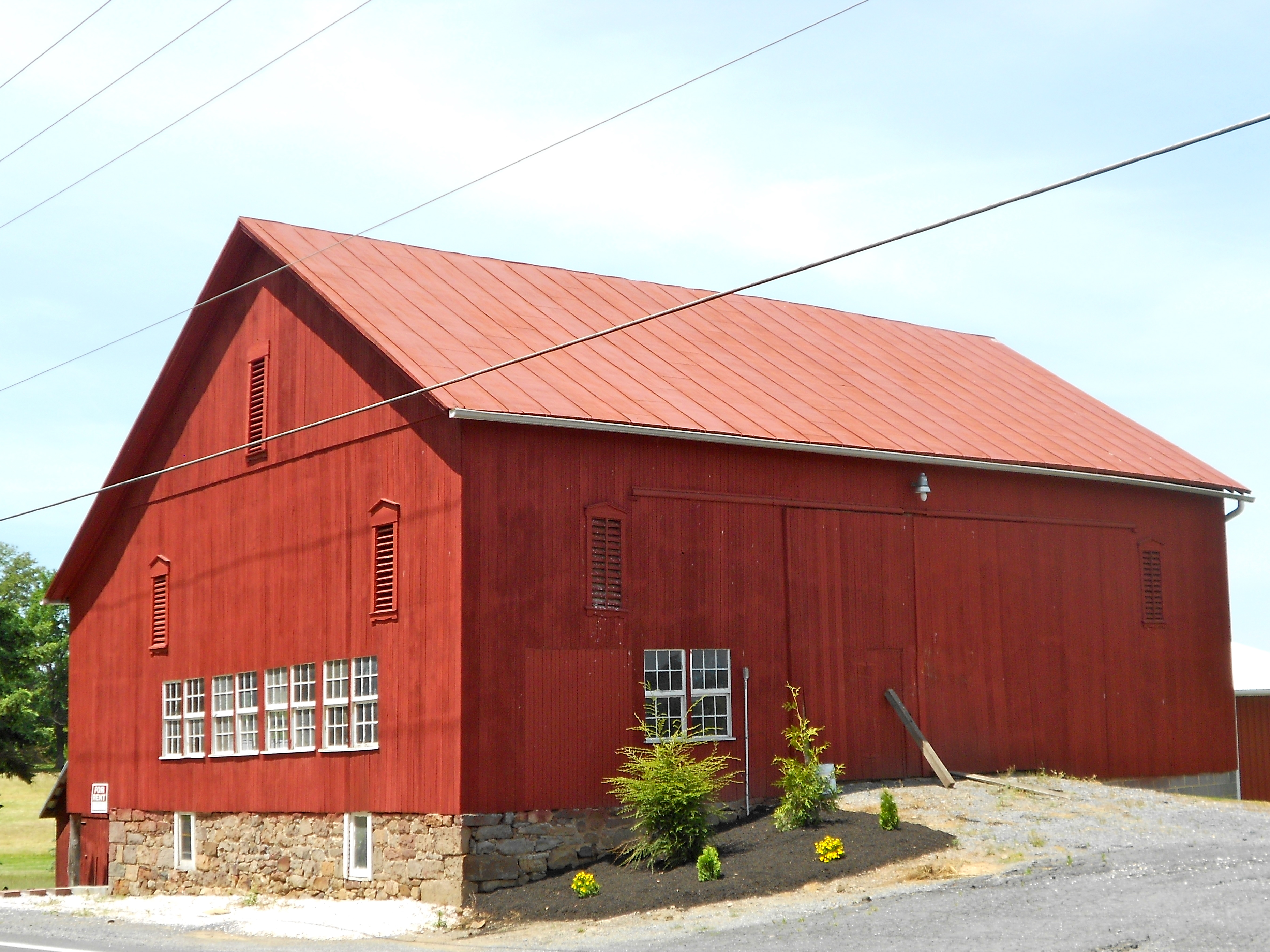 A barn in Carroll Township, York County, Pennsylvania at corner of Siddonsburg Rd and Chestnut Grove Rd